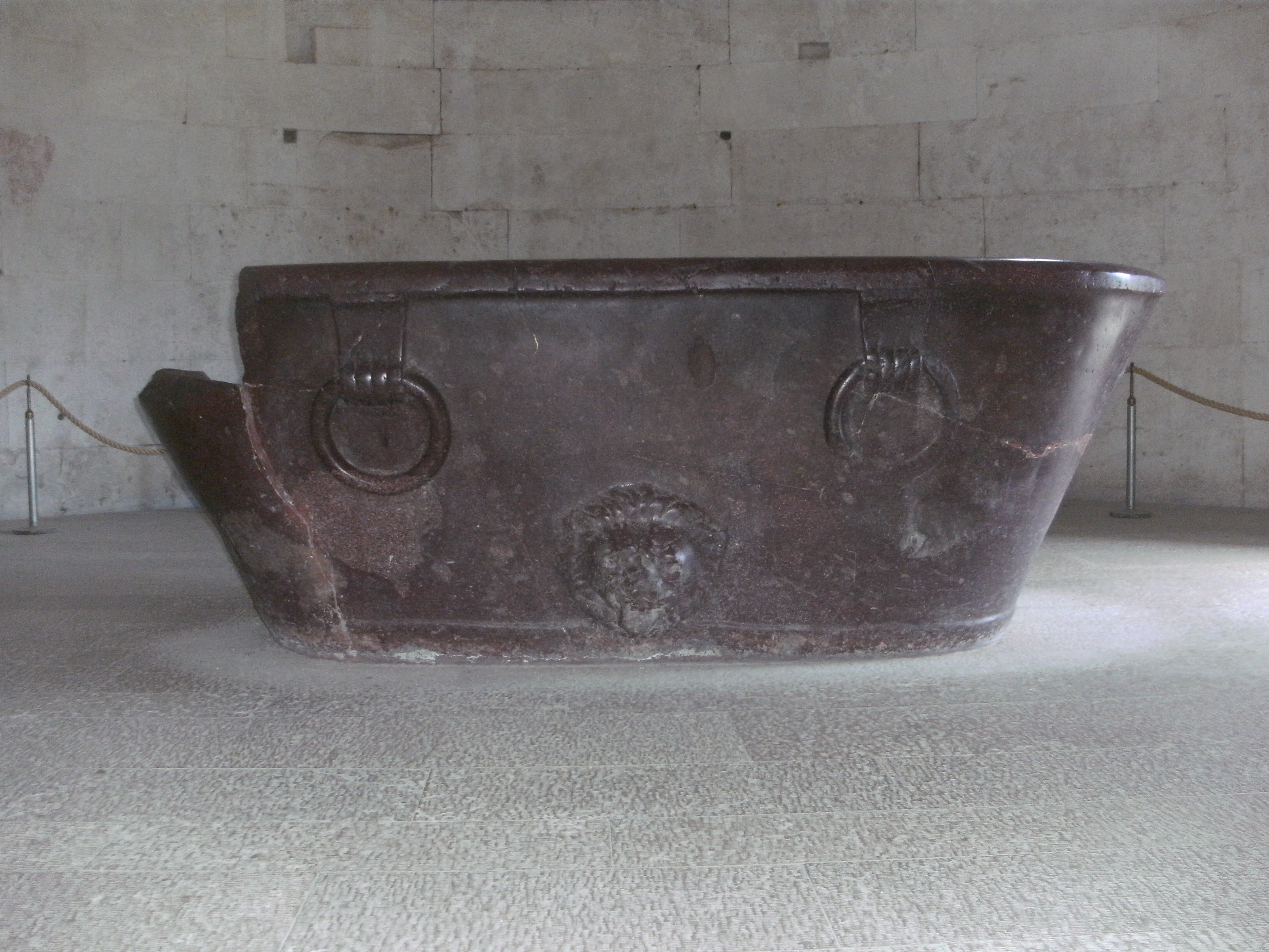 The porphyry labrum (vessel or basin with an overhanging lip), possibily from a Roman thermal building, which is said to have been reused in 526 AD as a sarcophagus for king Theodoric in Ravenna, Italy. The manufact was subsequently reused after 540 AD by the new rulers, the Byzantines, in the facade of the so-called "Palace of Theodoric" in Ravenna, whence it was moved in 1913 to the Mausoleum of Theoderic in Ravenna, where it stands today.